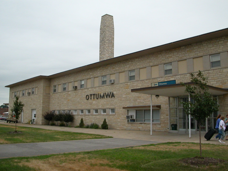 View of Ottumwa Amtrak Station from the California Zephyr.